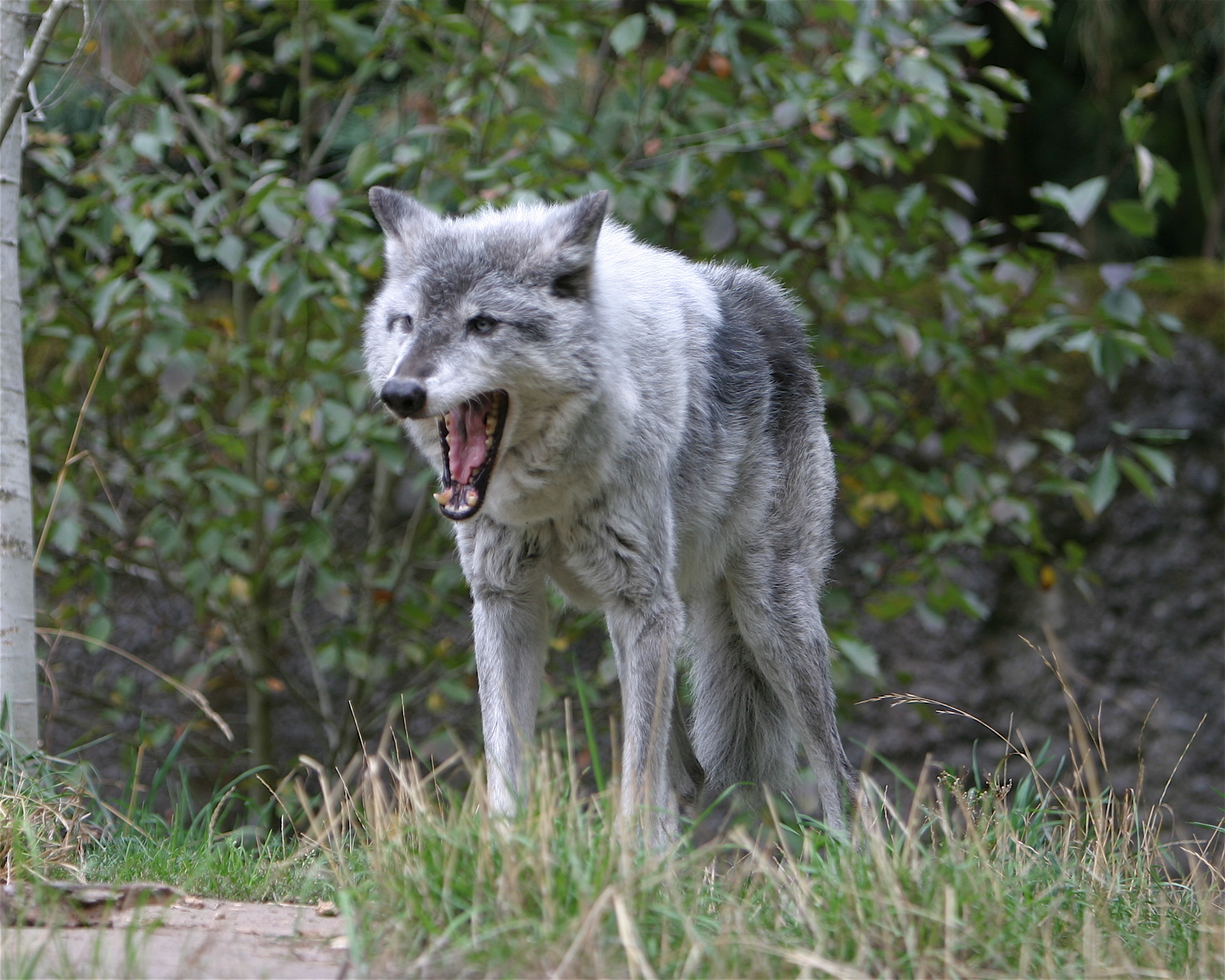 Grey Wolf at the Oregon Zoo